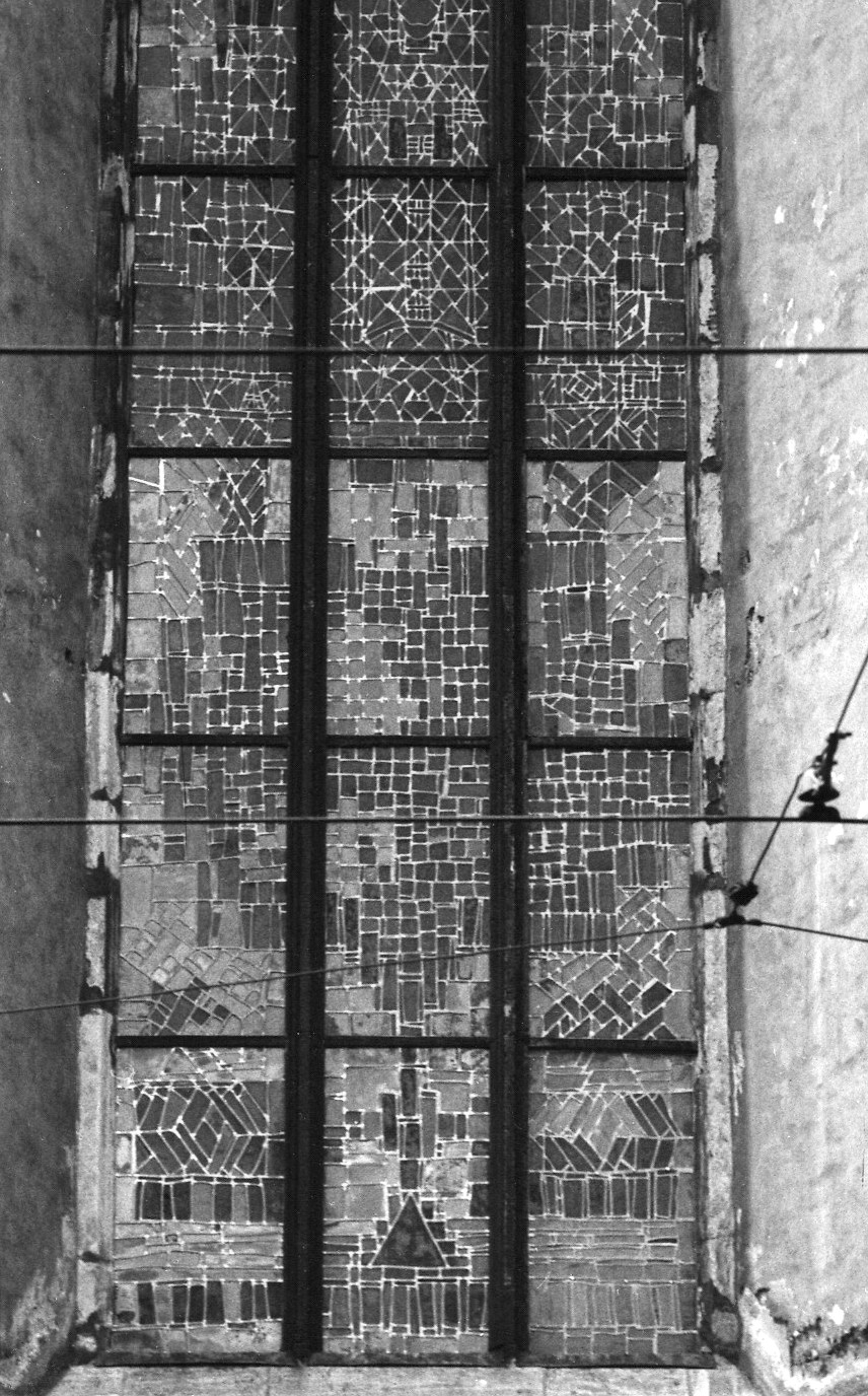 Outside wall of the Cathedral of Augsburg (Germany) with a stained glass window